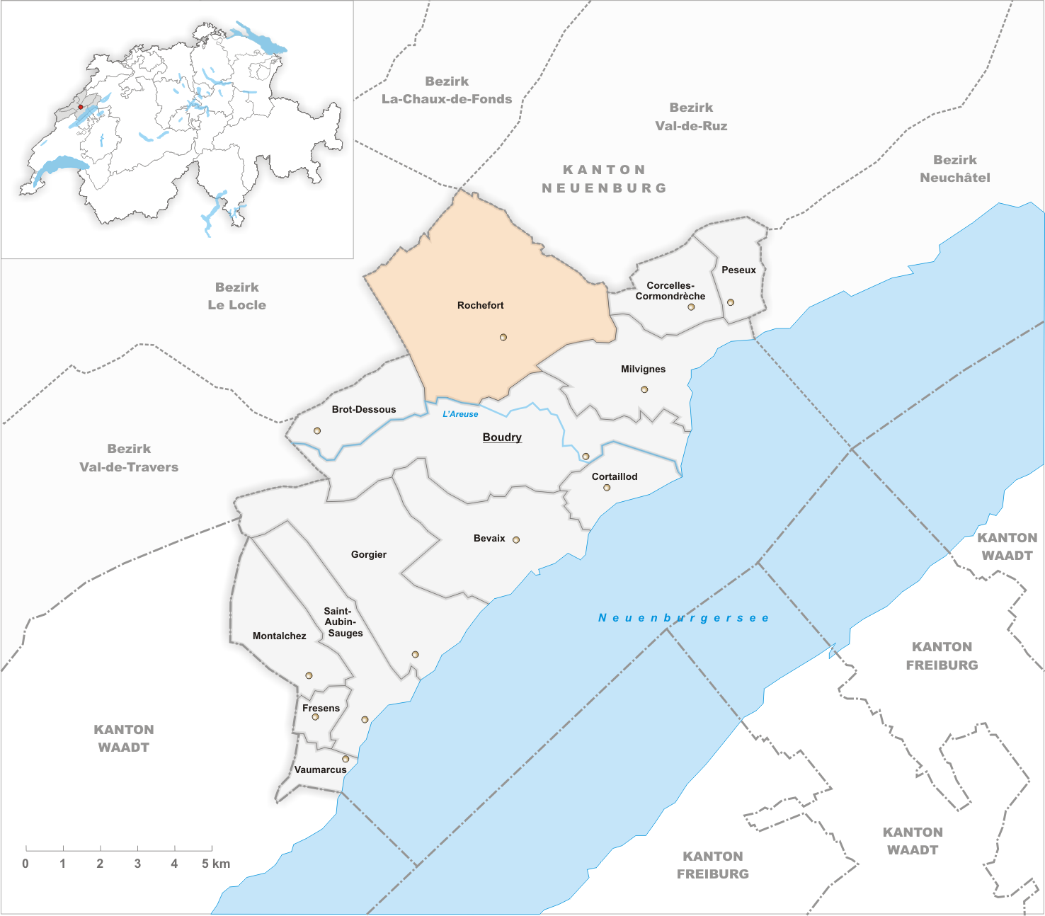 Municipality Rochefort